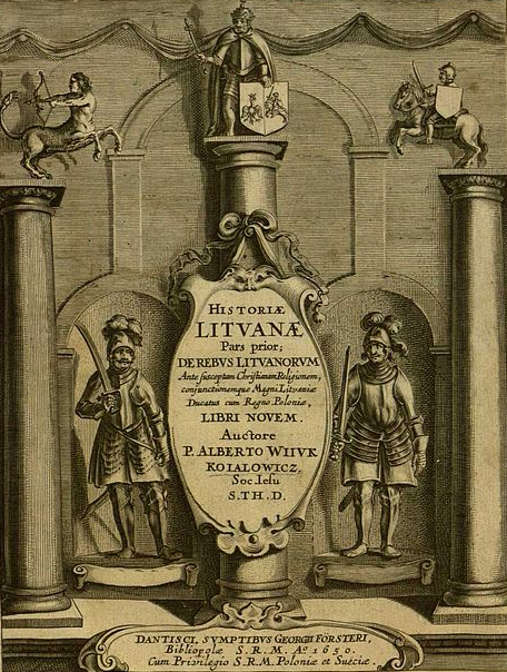 Альберт Виюк-Коялович. Титульный лист «Historiae Lithuanae pars prior, de rebus Lithuanorum ante susceptam Christianam religionem conjunctionemque… cum regno Poloniae» (Данциг, 1650)